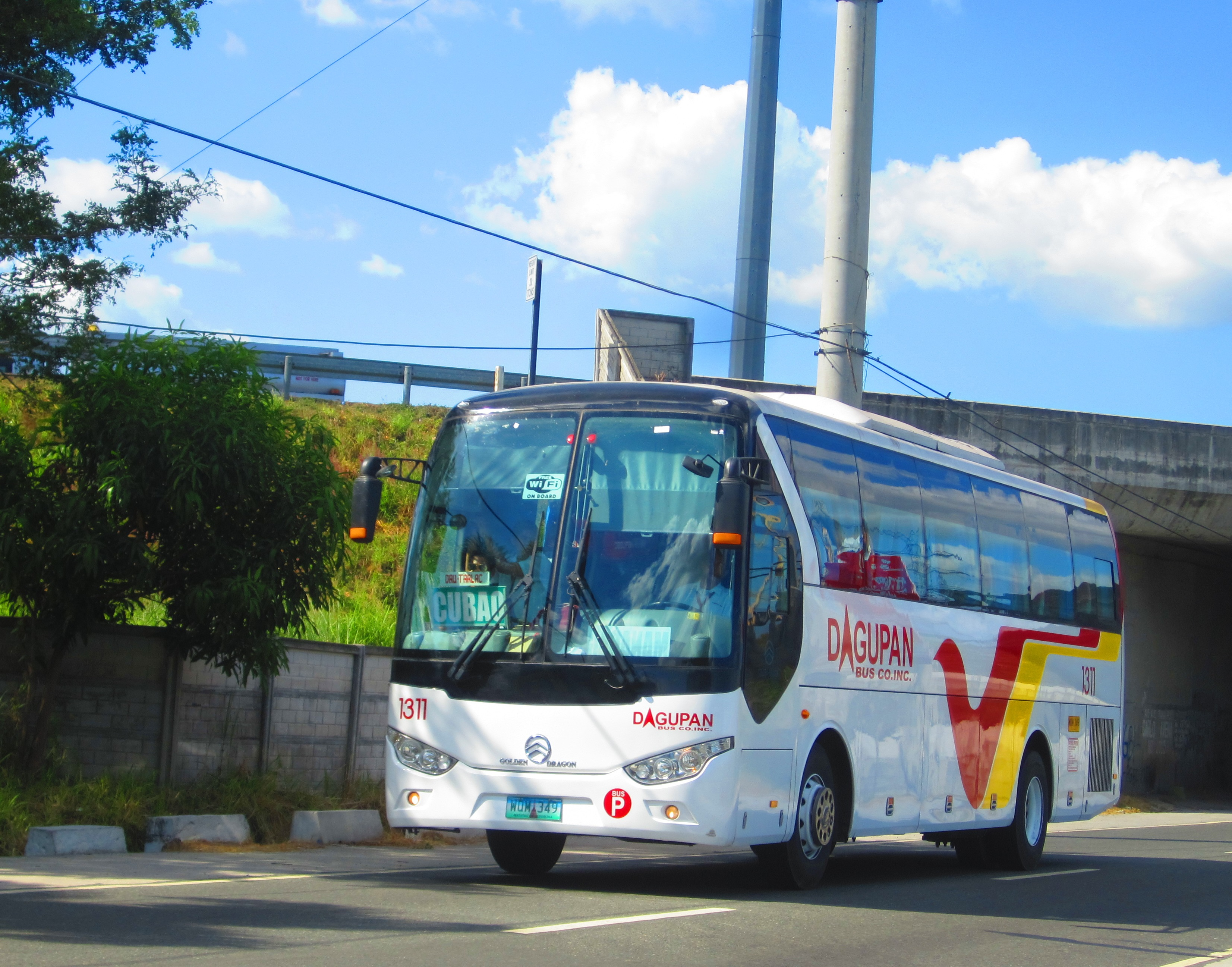 Dagupan Bus 1311 - Golden Dragon XML6103 Phoenix wearing JAC Liner livery